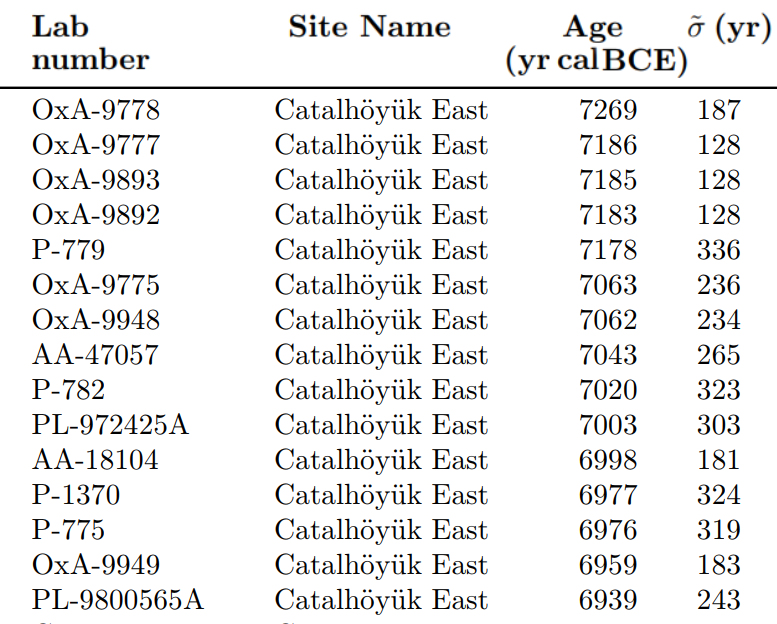 Calibrated dates for Çatalhöyük as of 2013